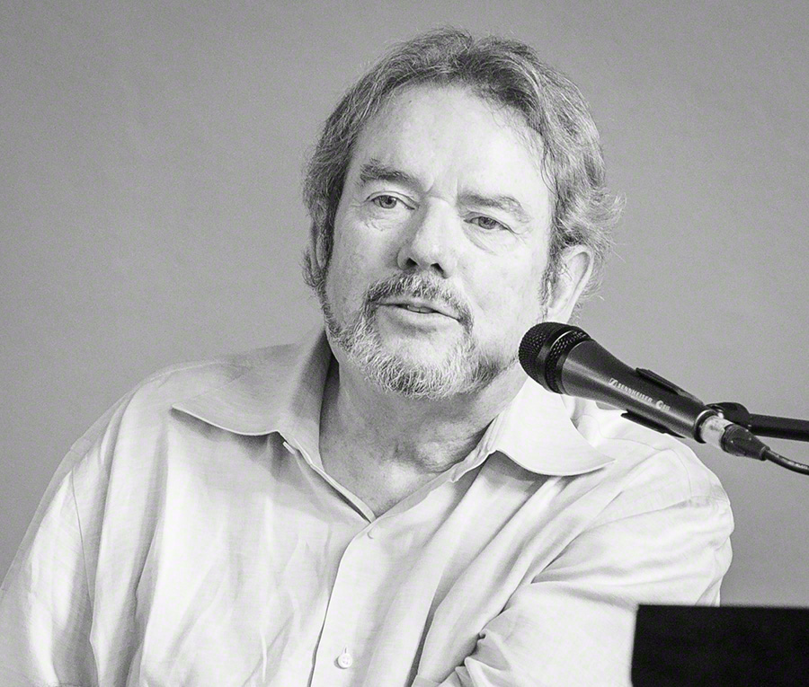 Masterclass med Jimmy Webb at Deichmanske bibliotek. The event is part of Oslo Jazzfestival in Oslo and took place on 20. August 2016.